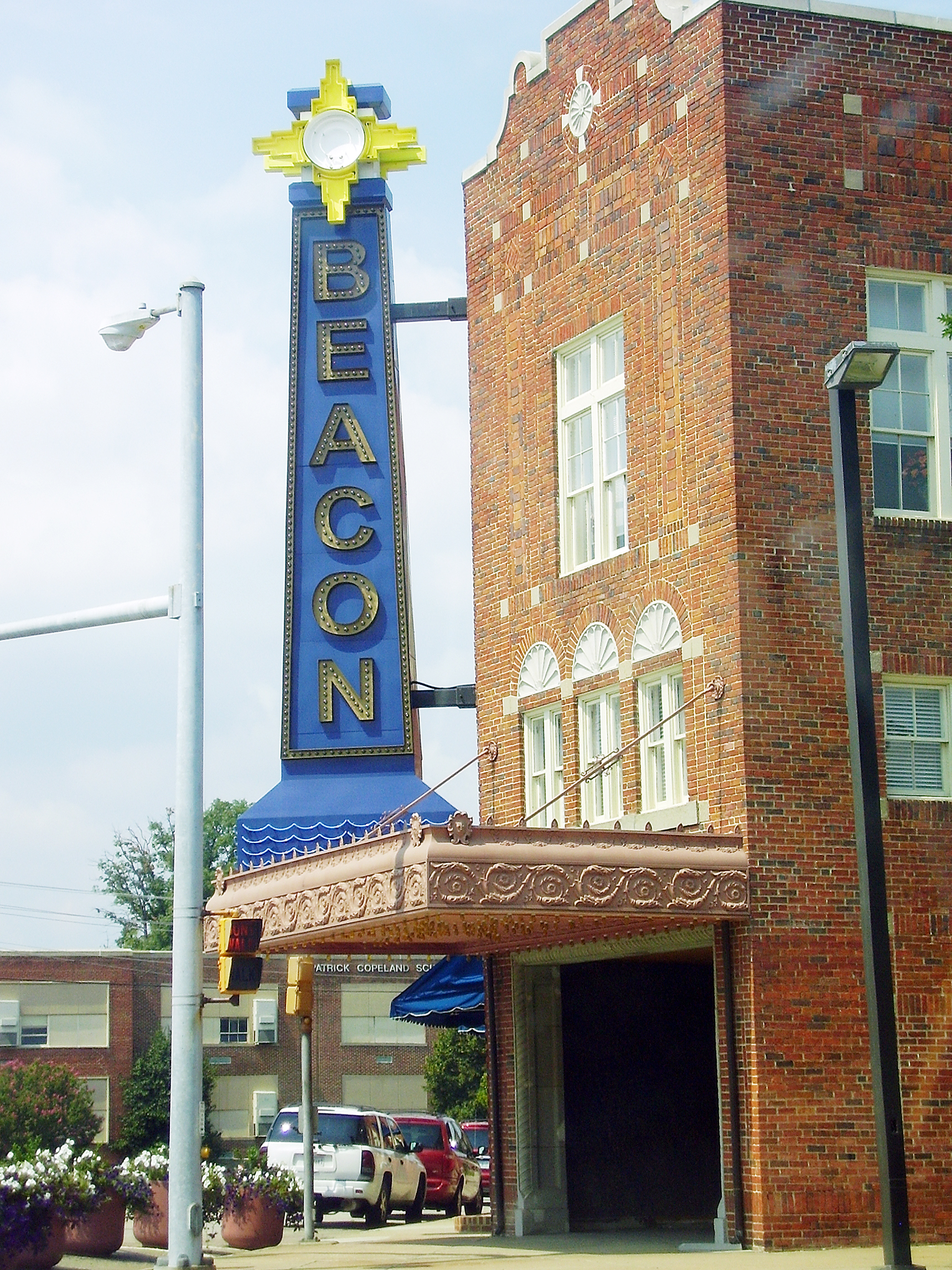 Beacon Theater, Hopewell, Virginia I took this photo myself.